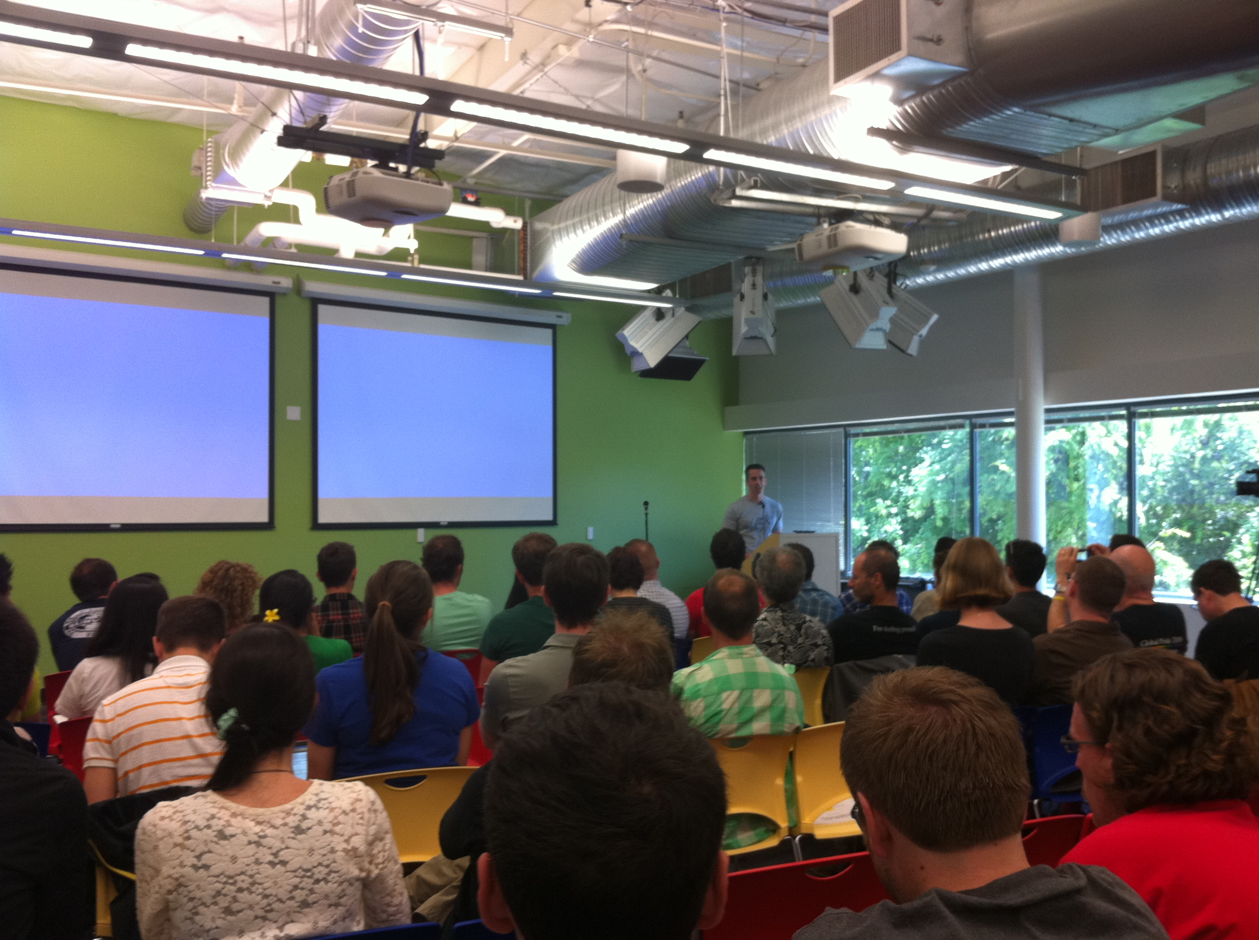 Dan Savage speaking at Google about the it gets better project 5-19-2011